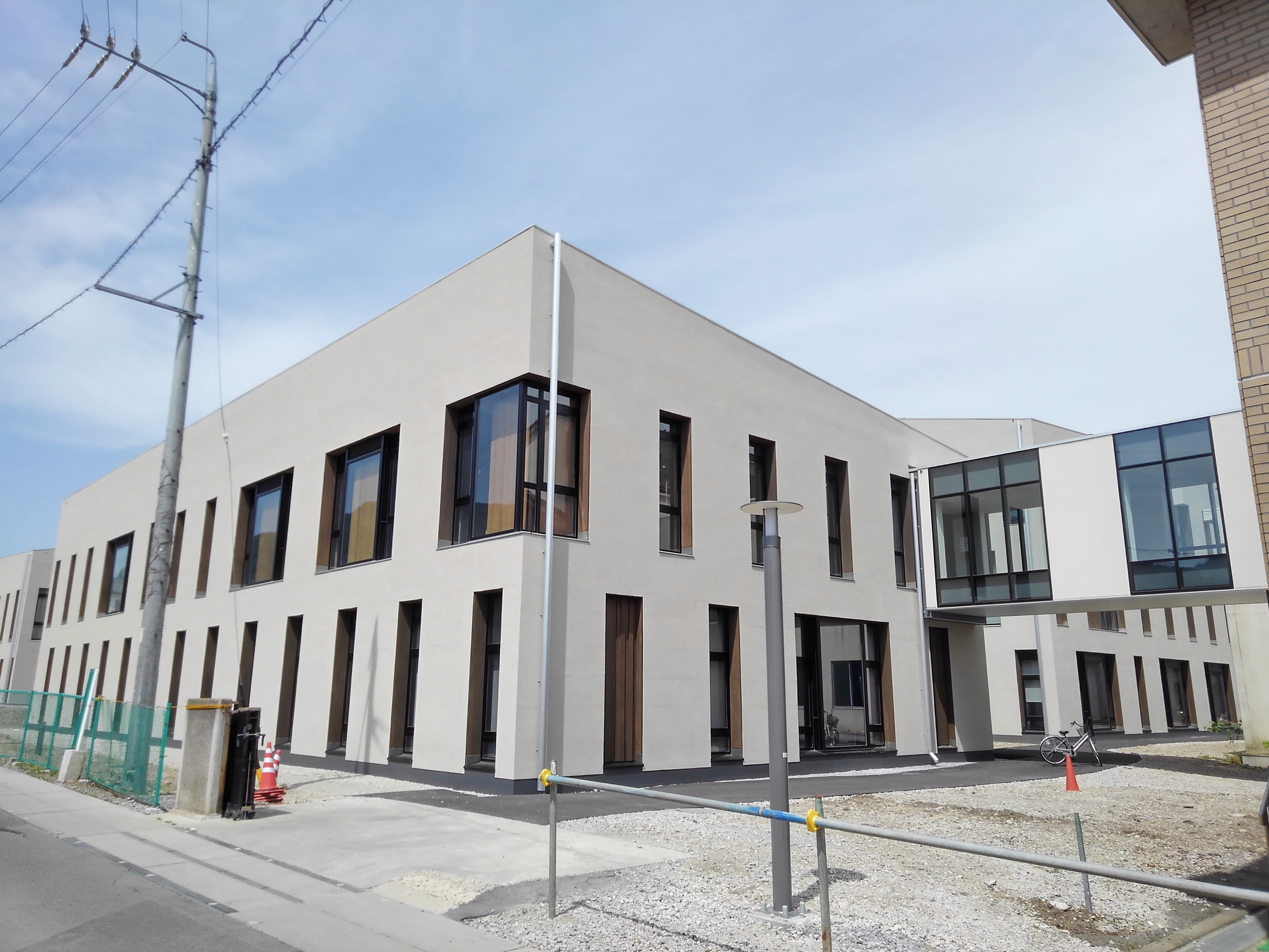 Library (newer building) of the University of Nagano located in Nagano, Nagano, Japan. Taken outside the campus.